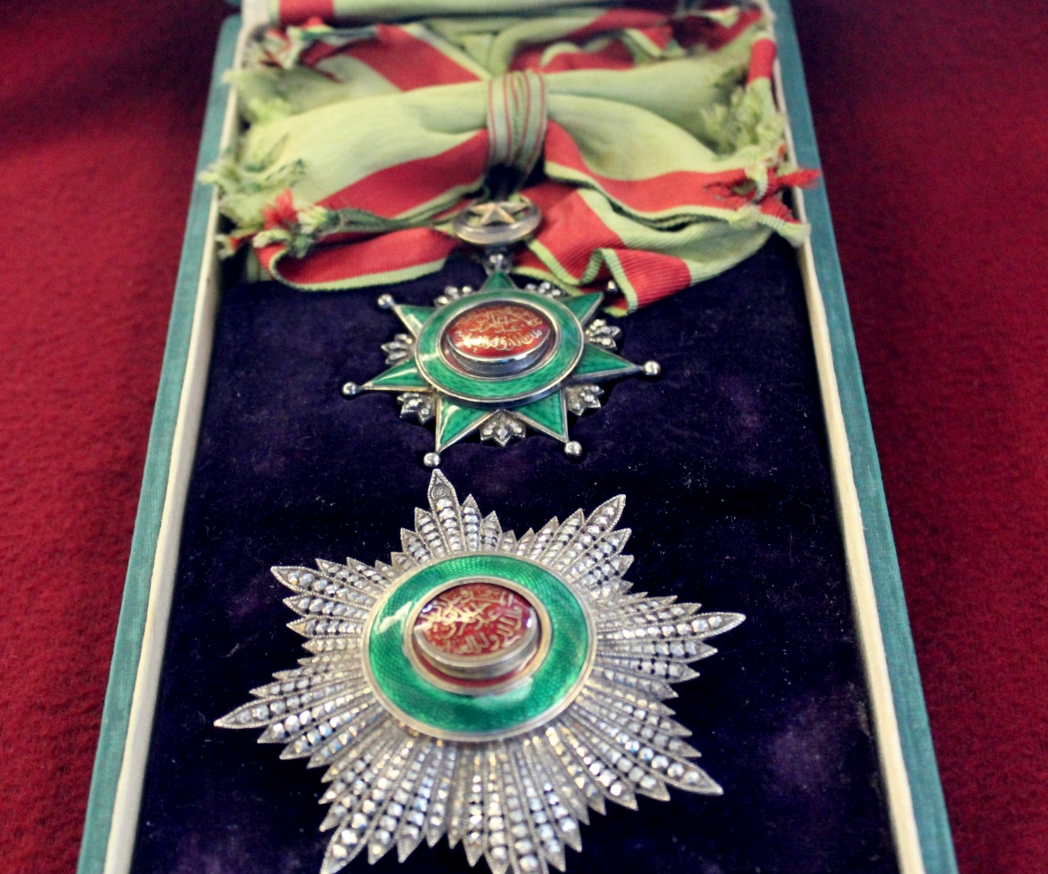 Order of Osmanieh of the Ottoman Empire.